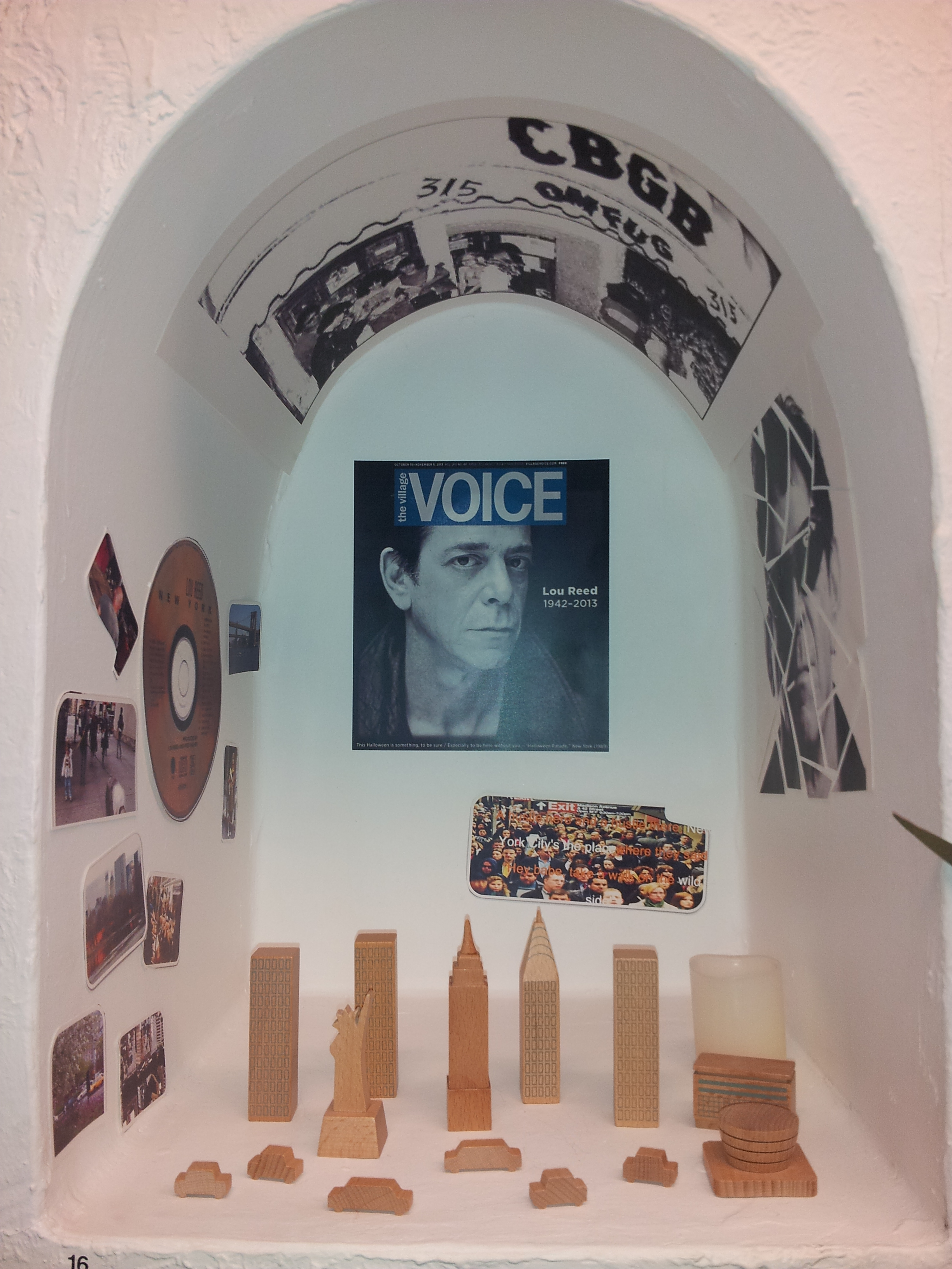 One of several Day of the Dead exhibits at the Sesqui Shop curated and/or created by the Consulate of Mexico in Boise, Idaho